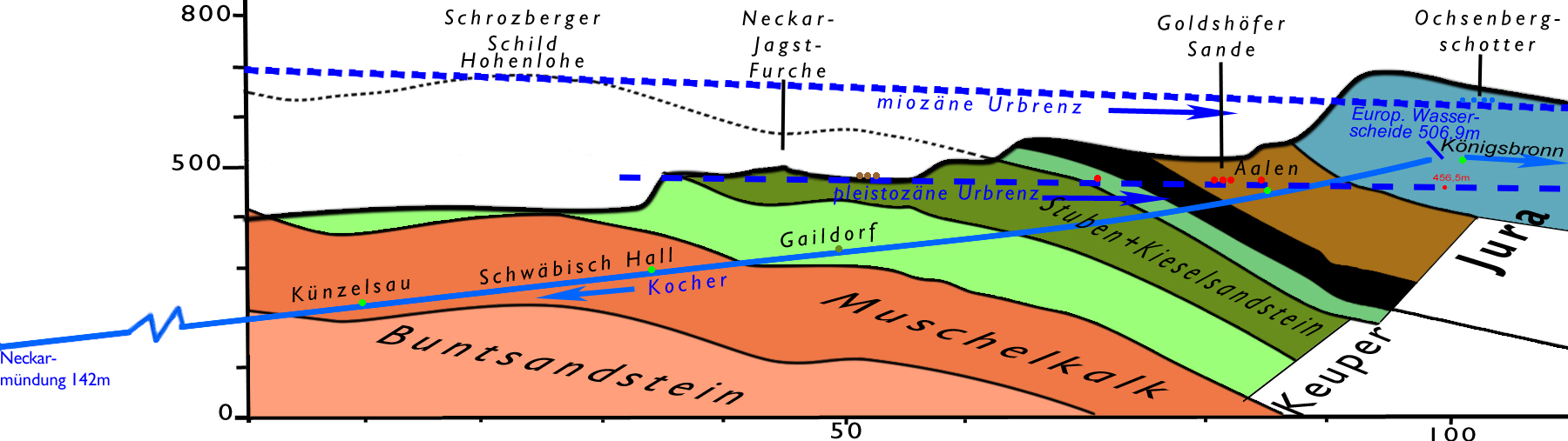 Schematic cross section of the dipping geolocical strata of the northeastern forefront of the Swabian Alb, including the river gate into the Swabian Alb at Aalen. The Neckar triburaries Kocher and Jagst captured the danubian anastomosing river system (braided rivers with very gentle gradient) of Miocene and Pleistocene age in middle Pleistocene. The graben of the Upper Rhine valley and the headward erosion of rivers Rhine, Neckar and their tributaries changed the drainage system of the Danube system drastically – in favour of the rhenish system. The existence of a danubian river system of pleistocene age is verified mainly by the Goldshöfer Sande. Its Paleogene age is verified by sedimental rests found on the Upper Jurasic of the Swabian Alb ("Ochsenberg-Schotter").